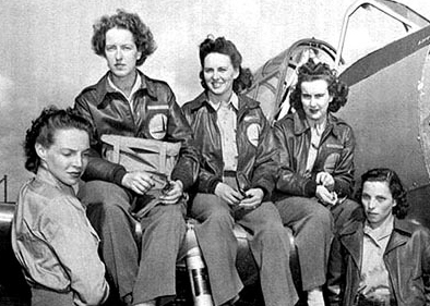 From left to right: Barbara Towne, Cornelia Fort, Evelyn Sharp, Barbara Erickson, and Bernice Batten beside Vultee BT-13 Valiant. The Women's Auxiliary Ferrying Squadron (WAFS), never numbering more than 28, was created in September 1942 within the Air Transport Command, under Nancy Harkness Love's leadership. WAFS were recruited from among commercially licensed women pilots with at least 500 hours flying time and a 200-hp rating. (Women who joined the WAFS actually averaged about 1,100 hours of flying experience.) Their original mission was to ferry USAAF trainers and light aircraft from the factories, but later they were delivering fighters, bombers and transports as well.